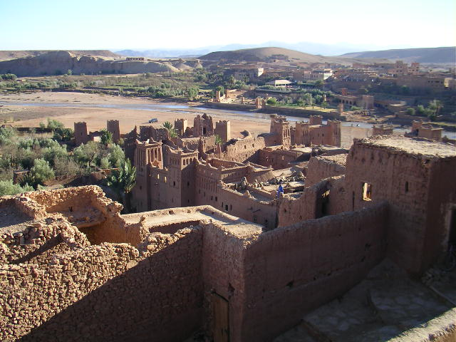 The Ksar at Aït Benhaddou (Morocco), a UNESCO World Heritage Site.